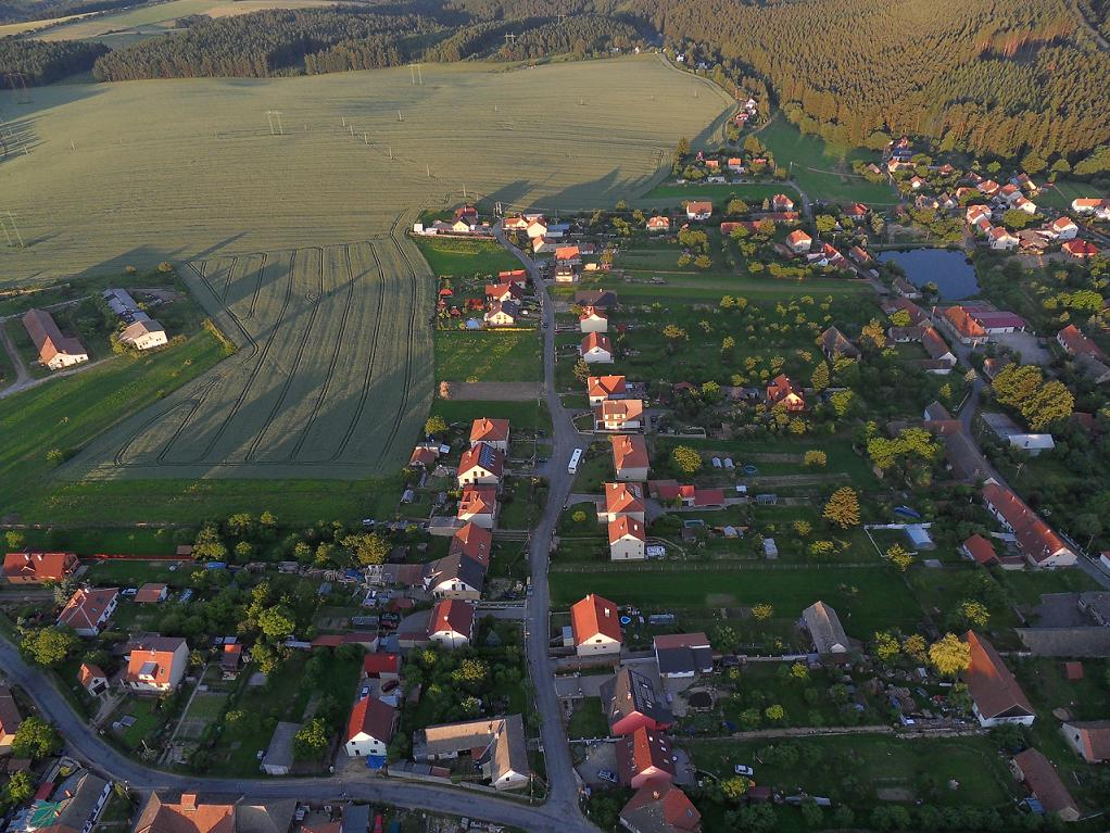 Air photo view of Mistrovská street